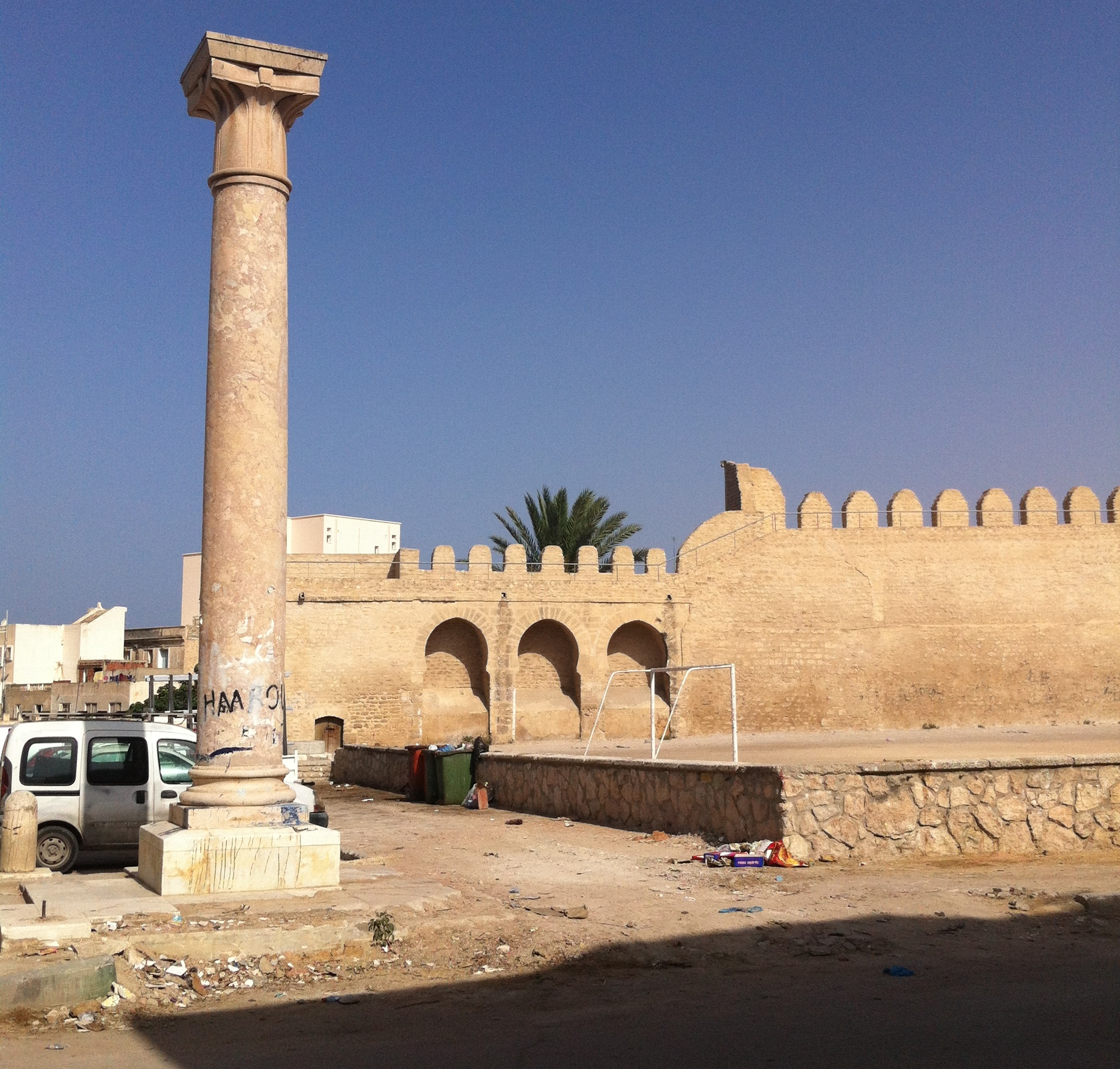 Medina of Sousse